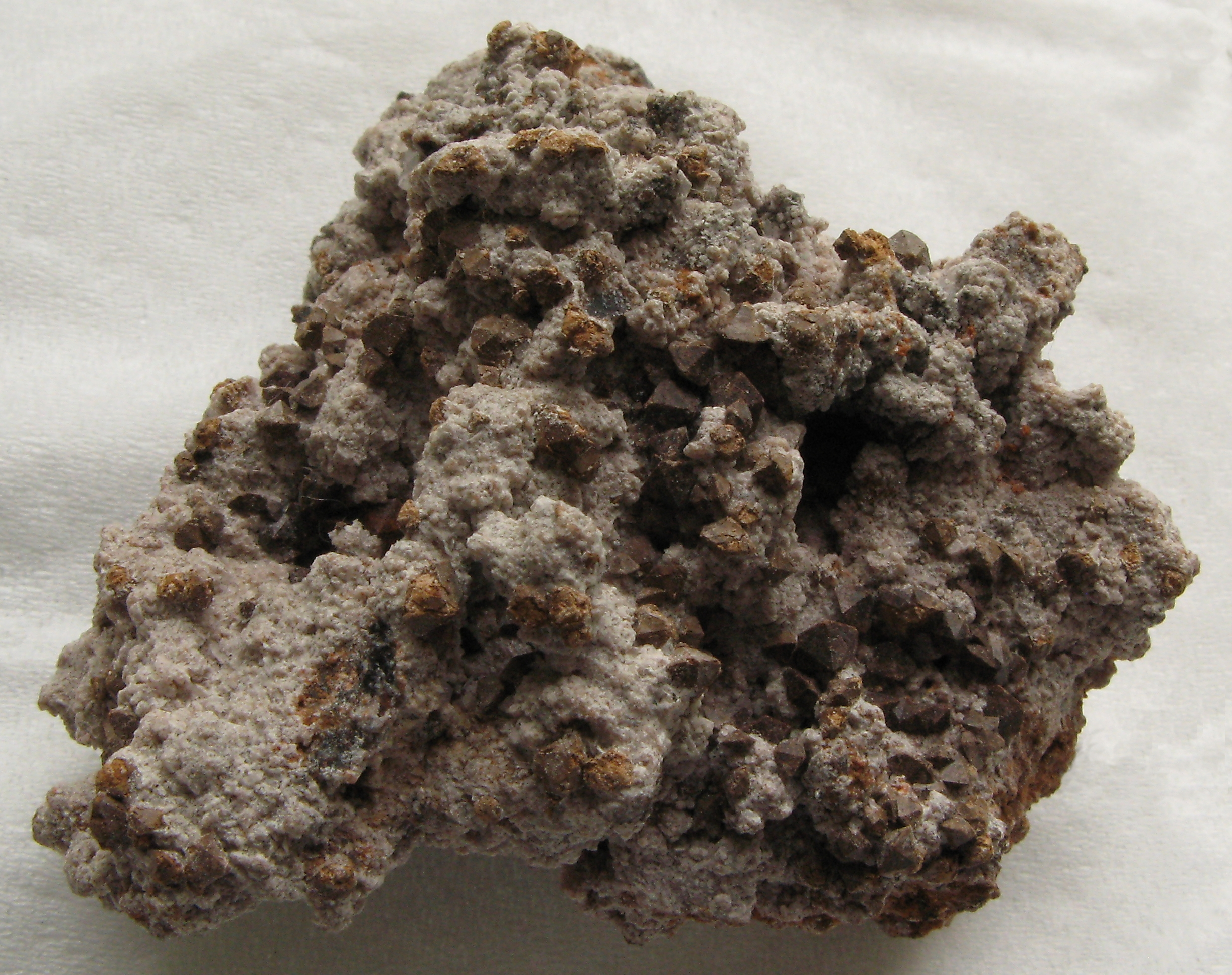 Portlandite, Sturmanite Locality: N'Chwaning Mine, Kalahari, Southafrica Exposed in the Mineralogical Museum of University Bonn, Germany